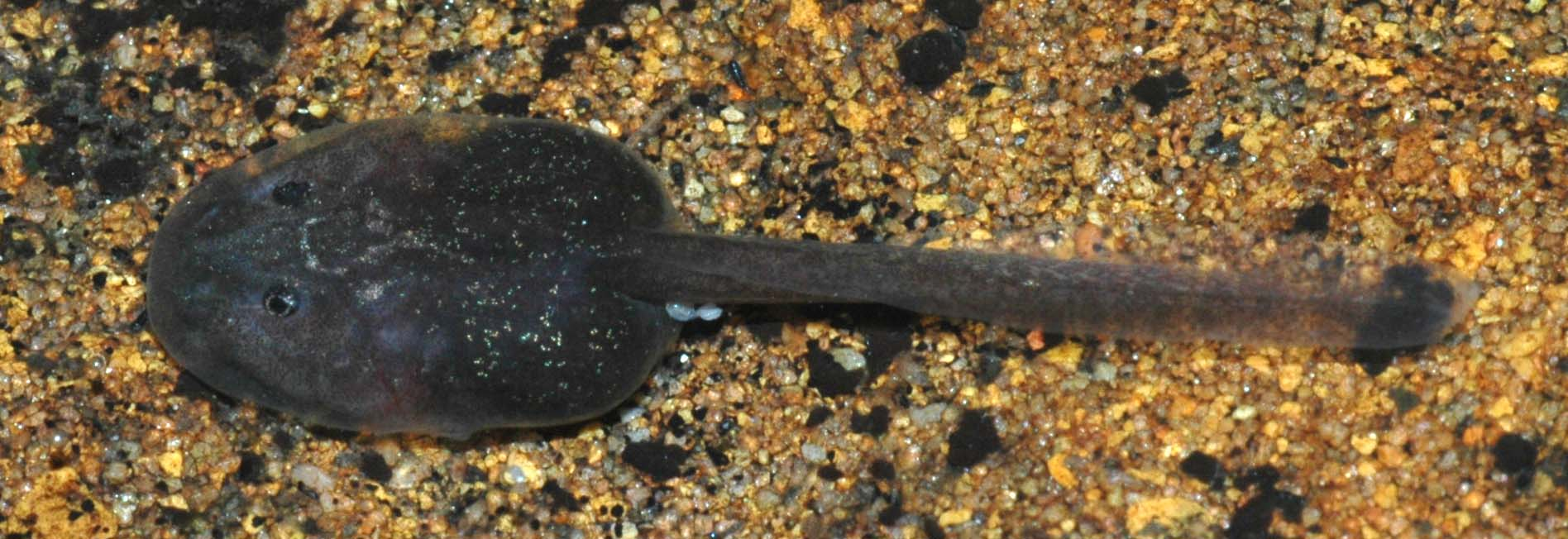 A Fletcher's Frog (Lechriodus fletcheri) tadpole.